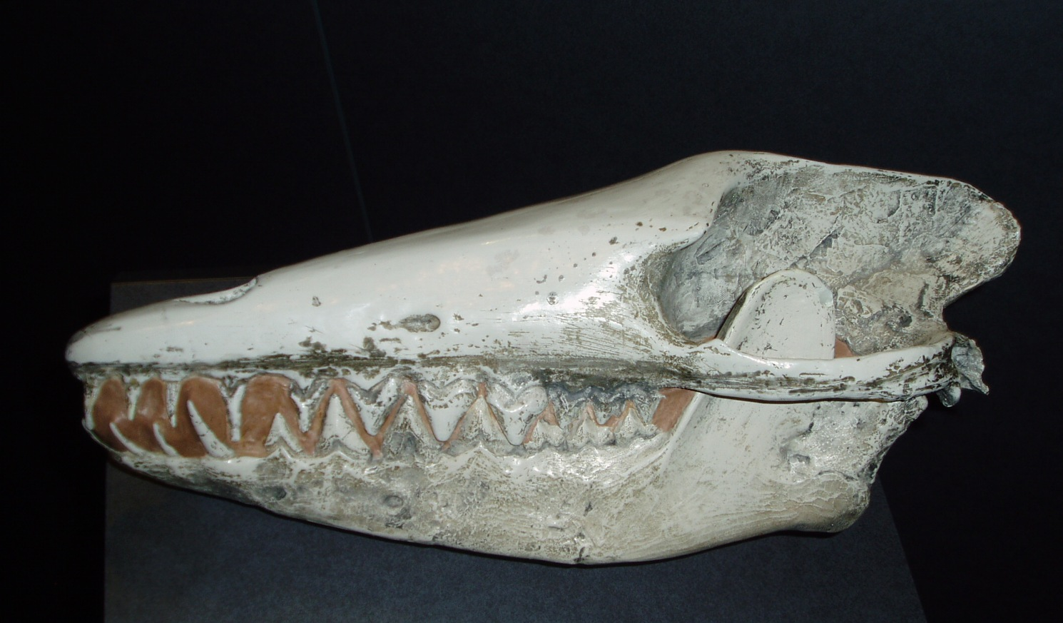 Skull of Pakicetus inachus, at Natural History Museum, London